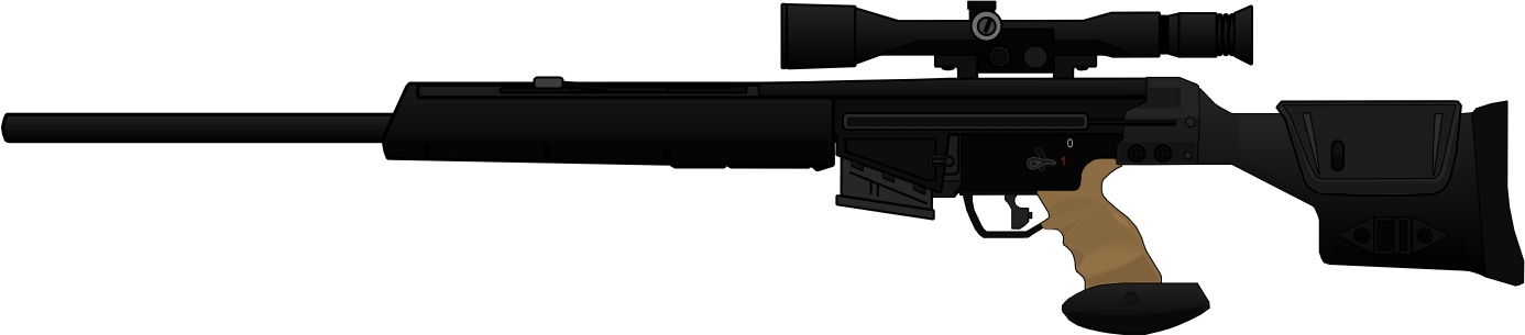 The H&K PSG-1 is one of the most accurate semiautomatic sniper rifle in the world.